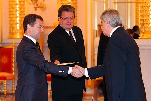 THE KREMLIN, MOSCOW. Ambassador of Montenegro Slobodan Backovic presents his letter of credentials to the President of Russia.